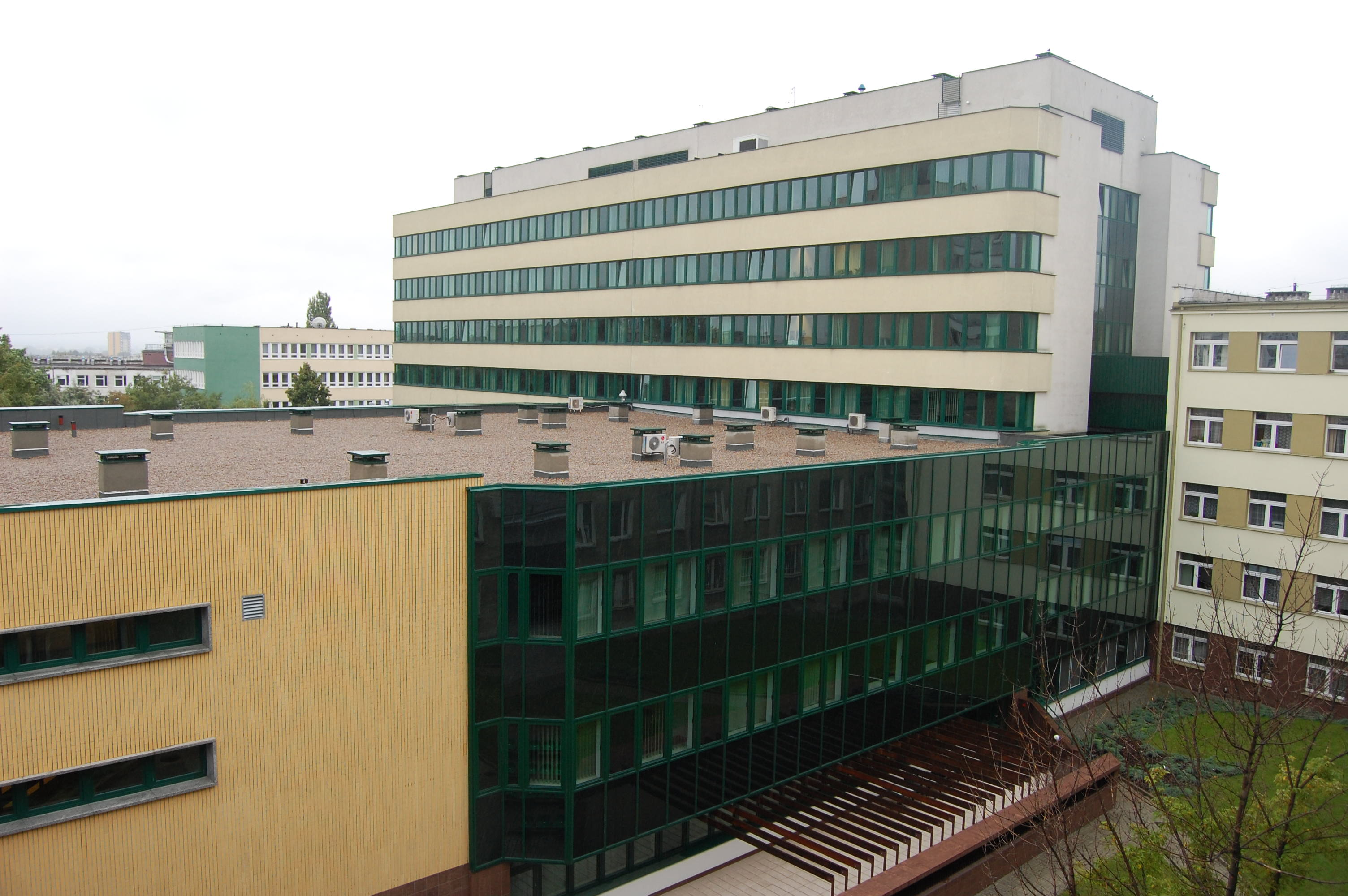 UMCS